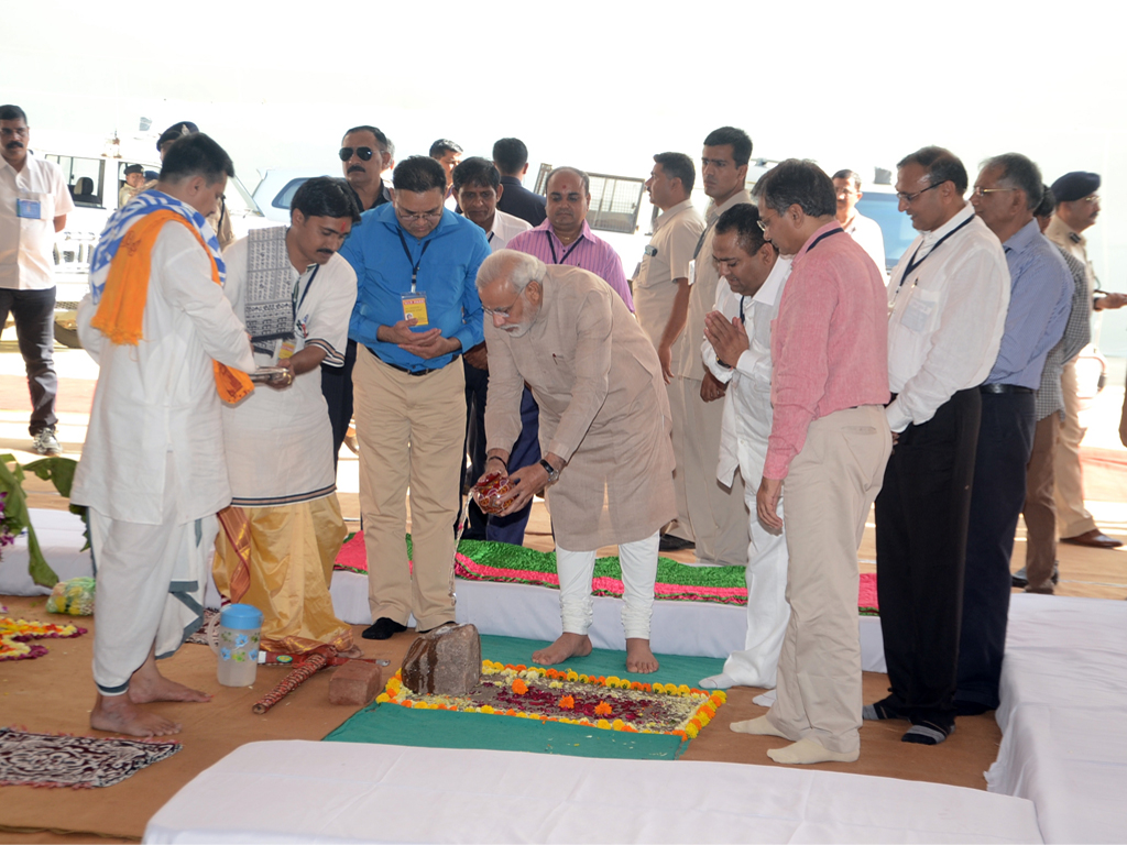 Narendra Modi attends Bhumi Pujan of MS Lakhani Hospital in Surat